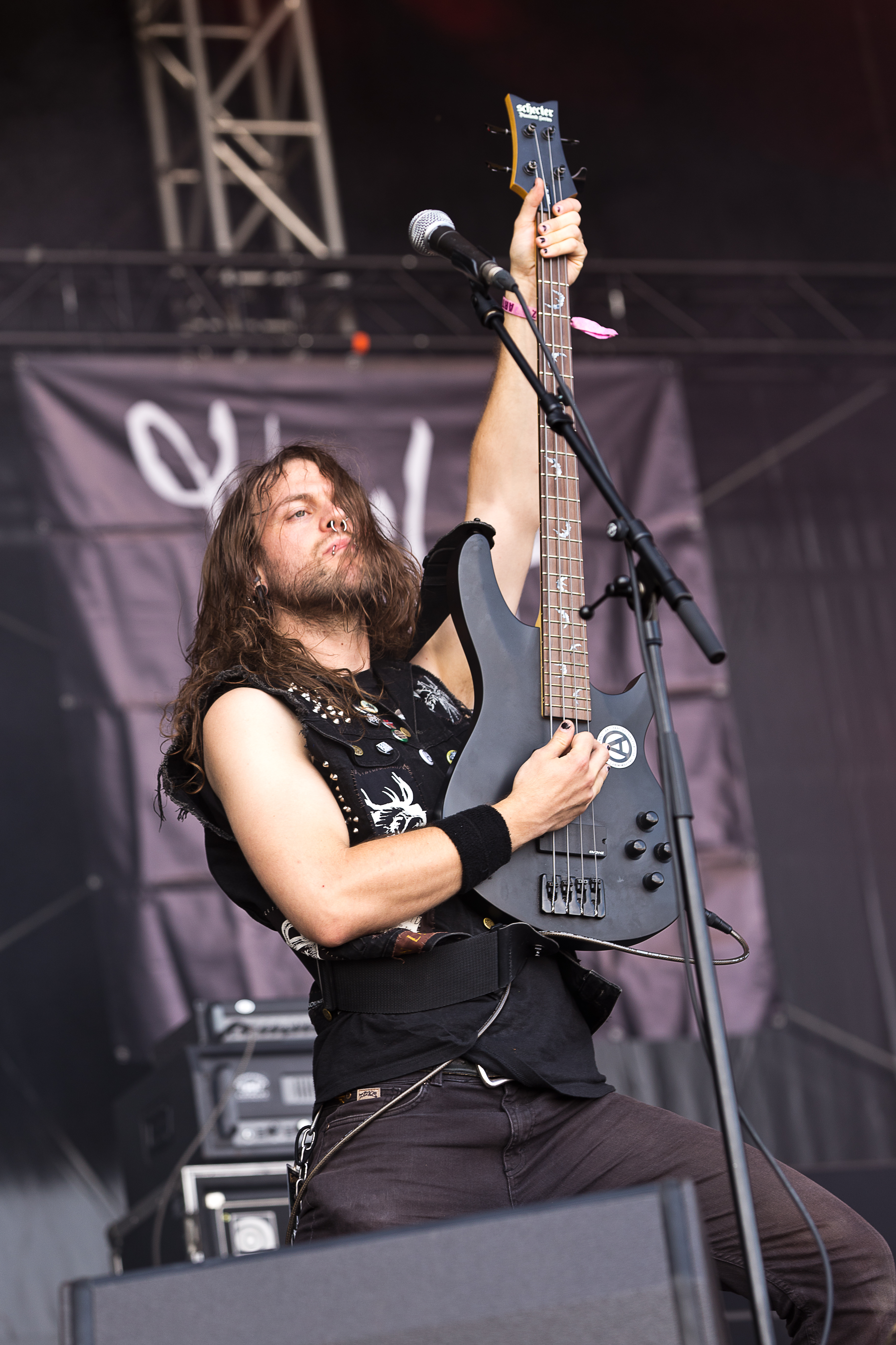 The German post metal band Heretoir at the Rockharz Open Air 2015 in Ballenstedt/Germany.